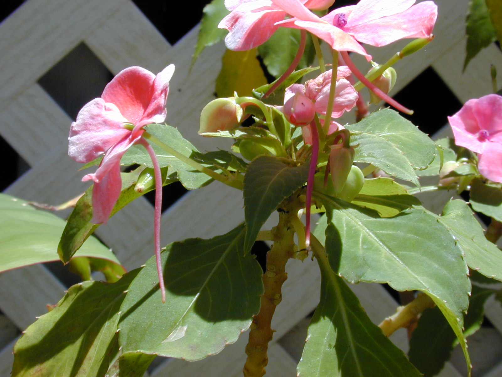 Impatiens walleriana (flower spurs). Location: Maui, Makawao